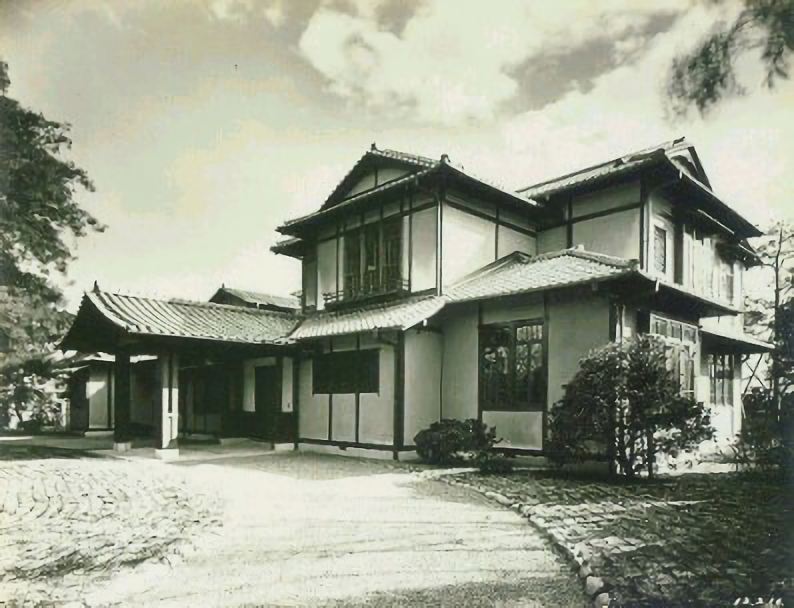 The Kantei's temporary residence, Nihon-ya (“The Japanese House”), 1937–45.